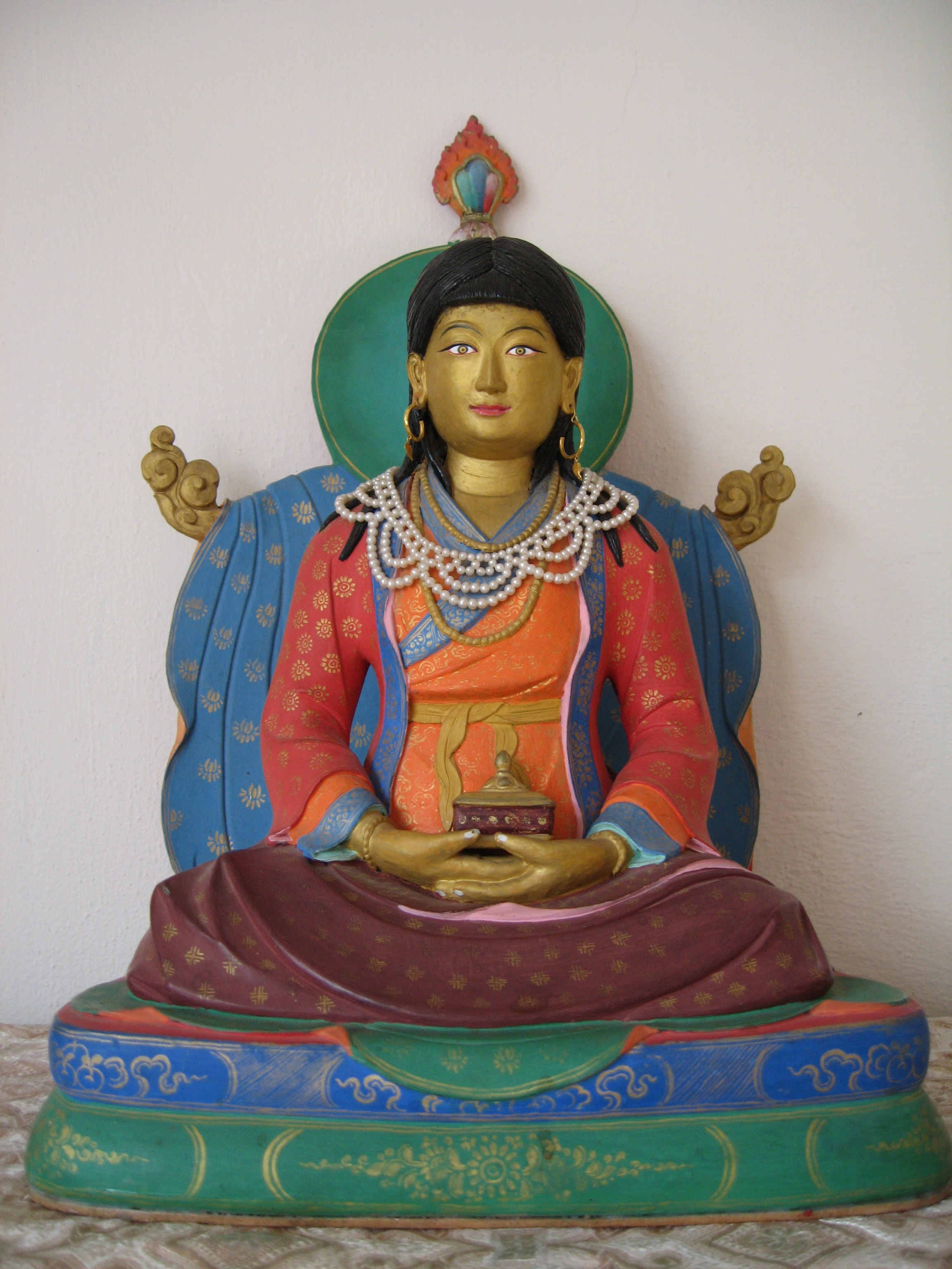 Sera Khandro Kunzang Dekyong Wangmo (b.1892 - d.1940), Tibetan female Buddhist teacher and treasure revealer